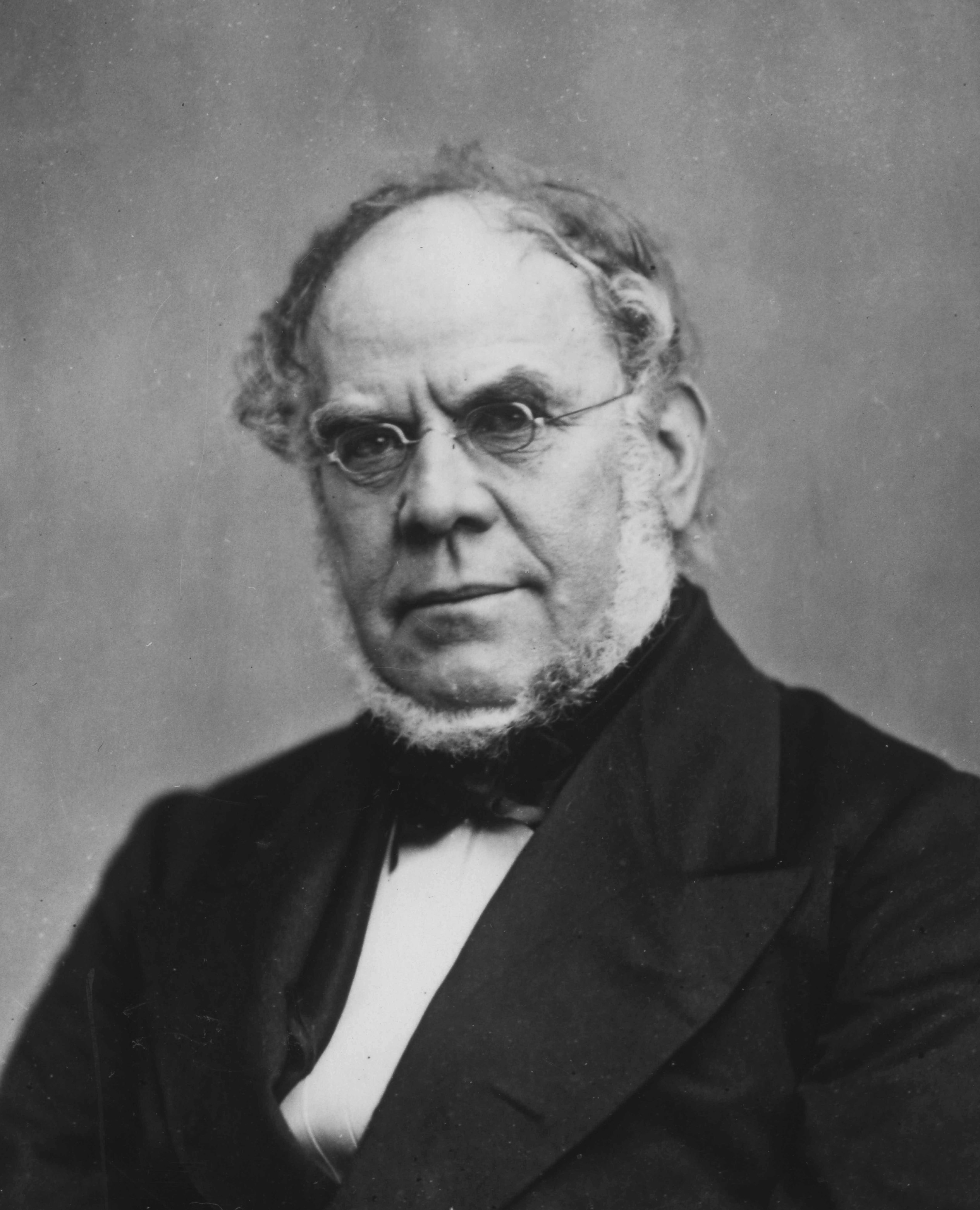 Horatio Allen (May 10, 1802 – December 31, 1889)